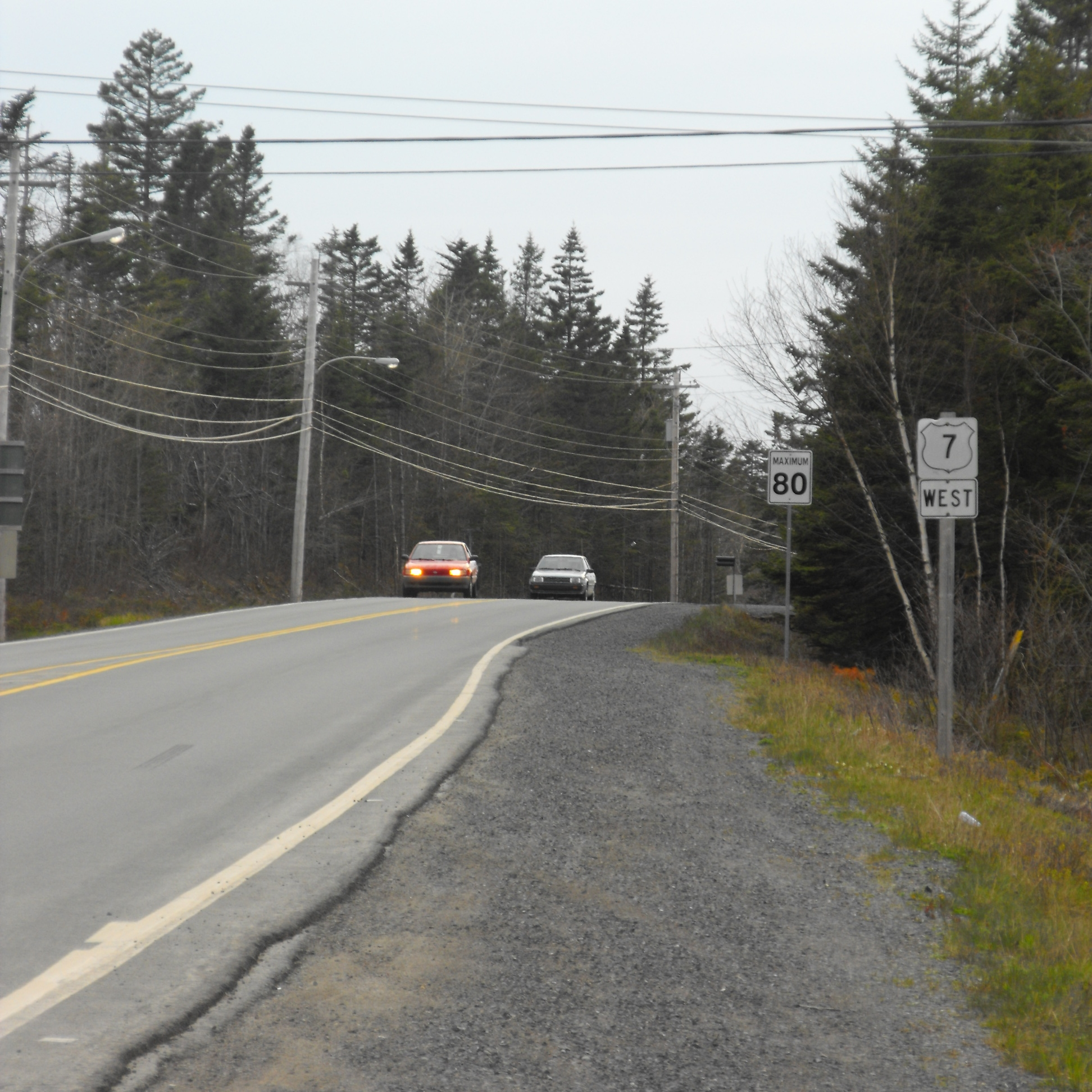 Roadside, Nova Scotia Route 7, Halifax Regional Municipality